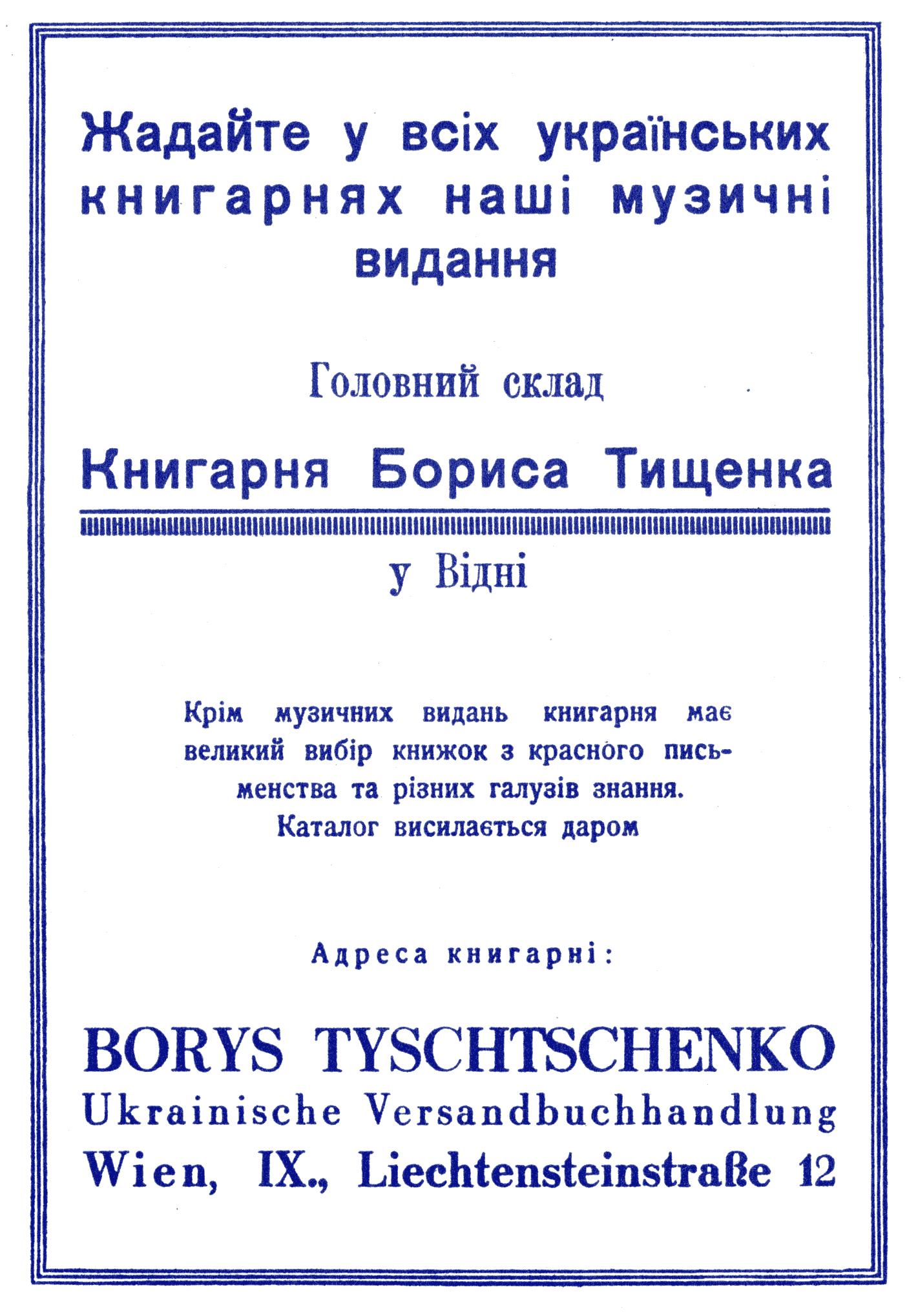 Advertisement for the Borys Tyshchenko Book Publishing, in Vienna, circa 1945. Specializing in art books and sheet music.